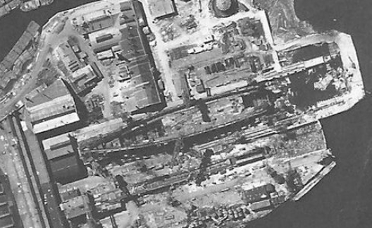 Luftwaffe aerial reconnaissance photo of the battlecruiser Kronstadt under construction in the Marti Shipyard